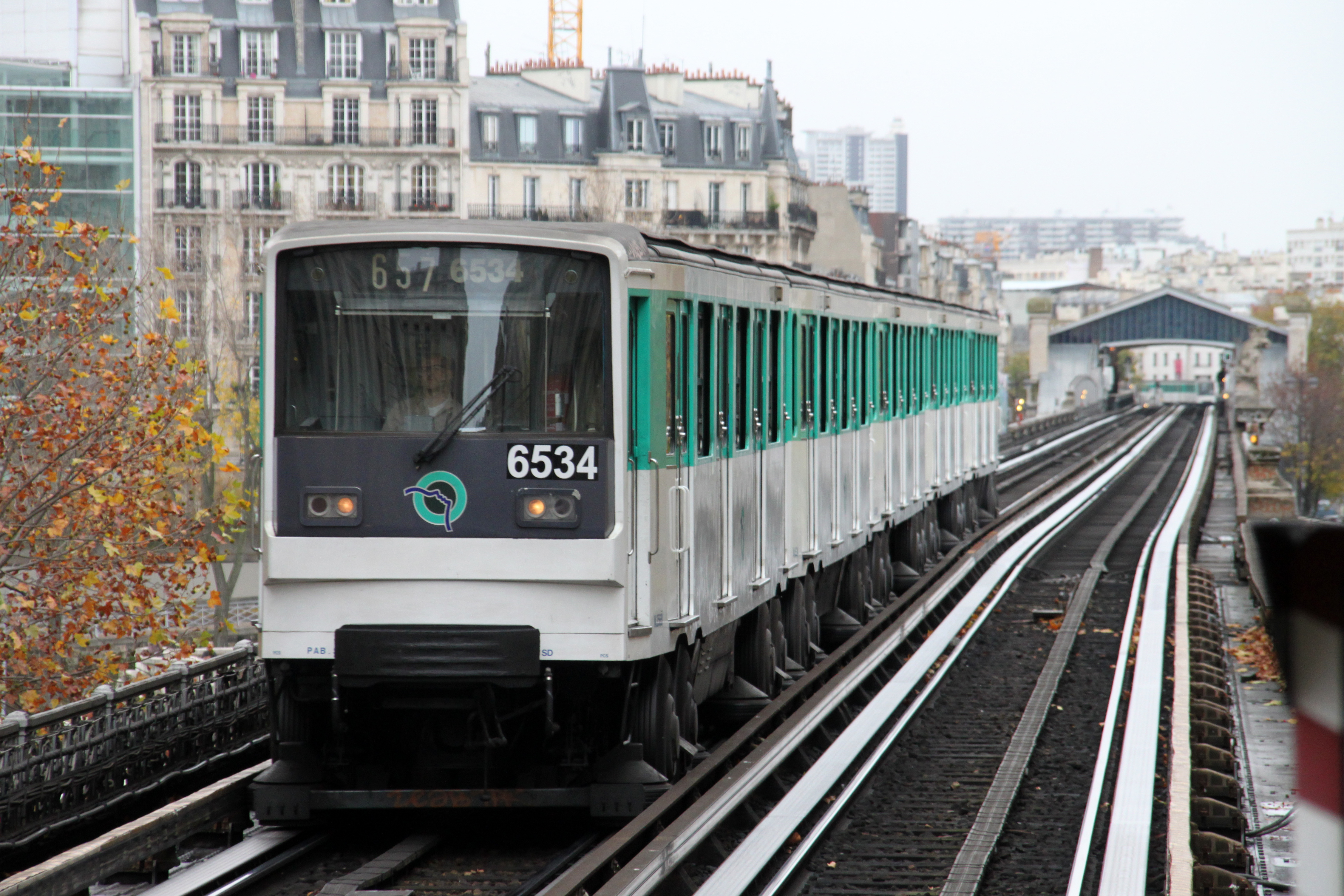 MP73 rubber tyred metro of Paris on line 6 at Passy station.